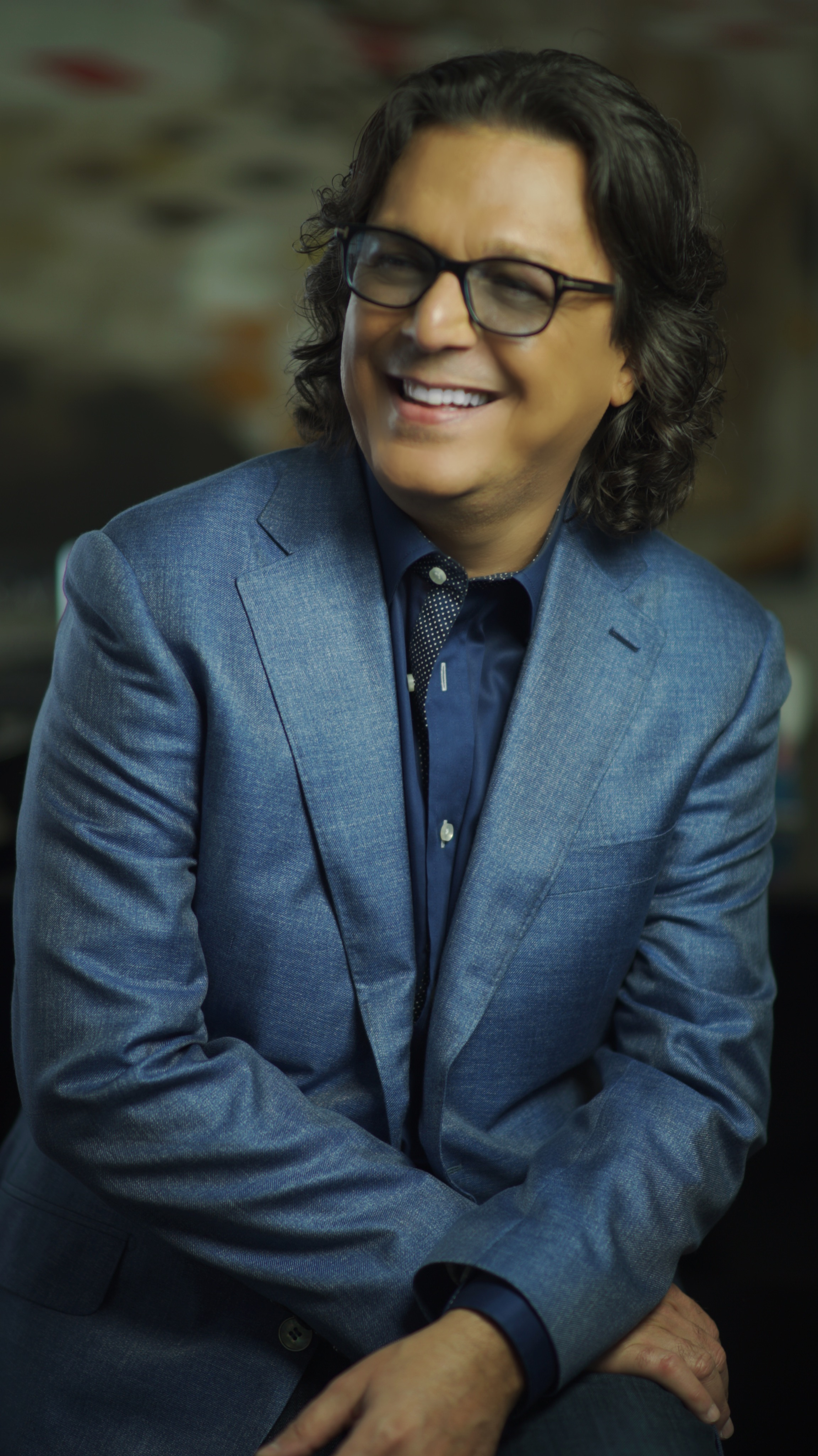 Rudy Perez promotional picture